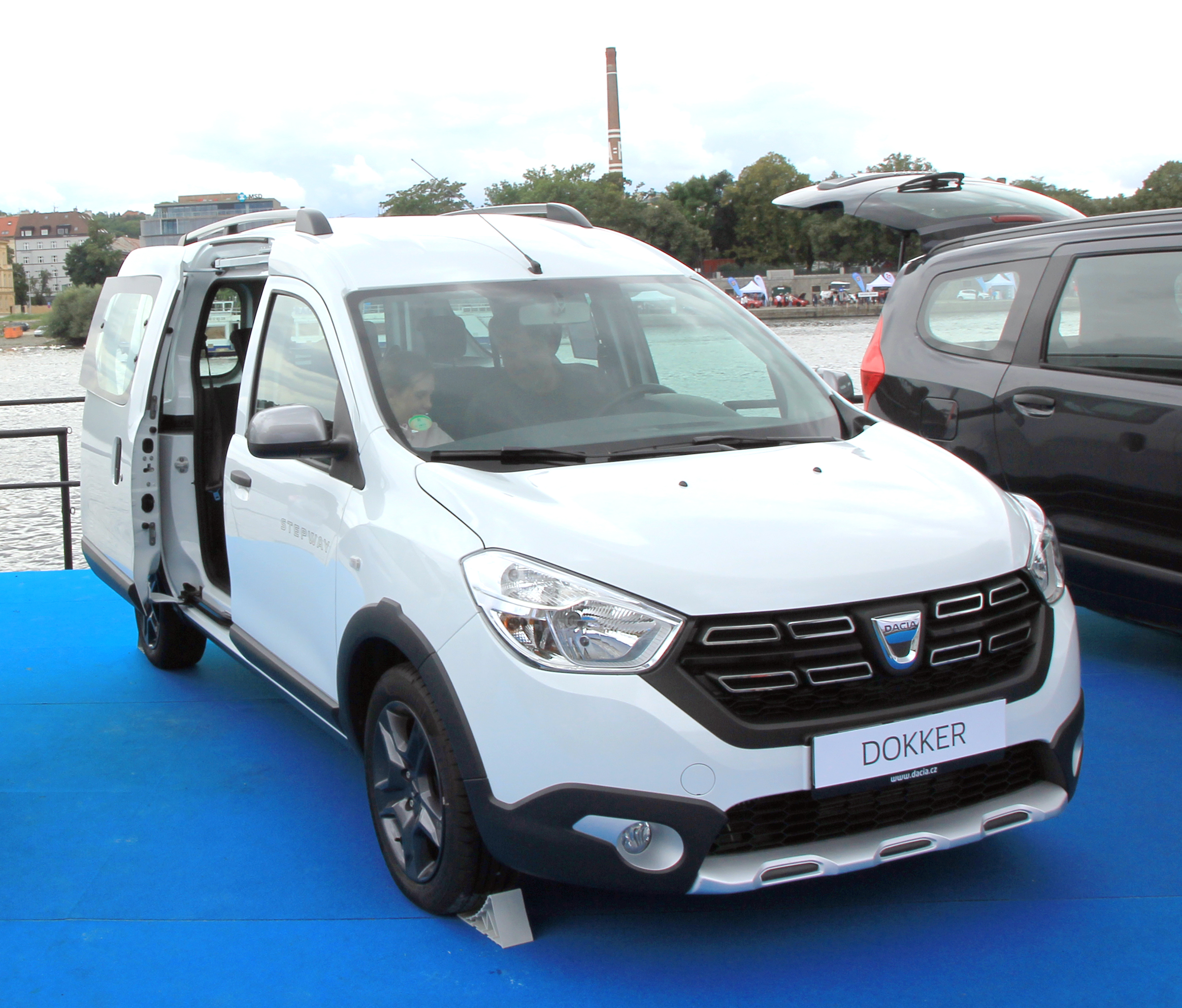 Automobile Dacia Dokker Stepway on Motor show Auta na náplavce in Prague, Czech Republic 2017